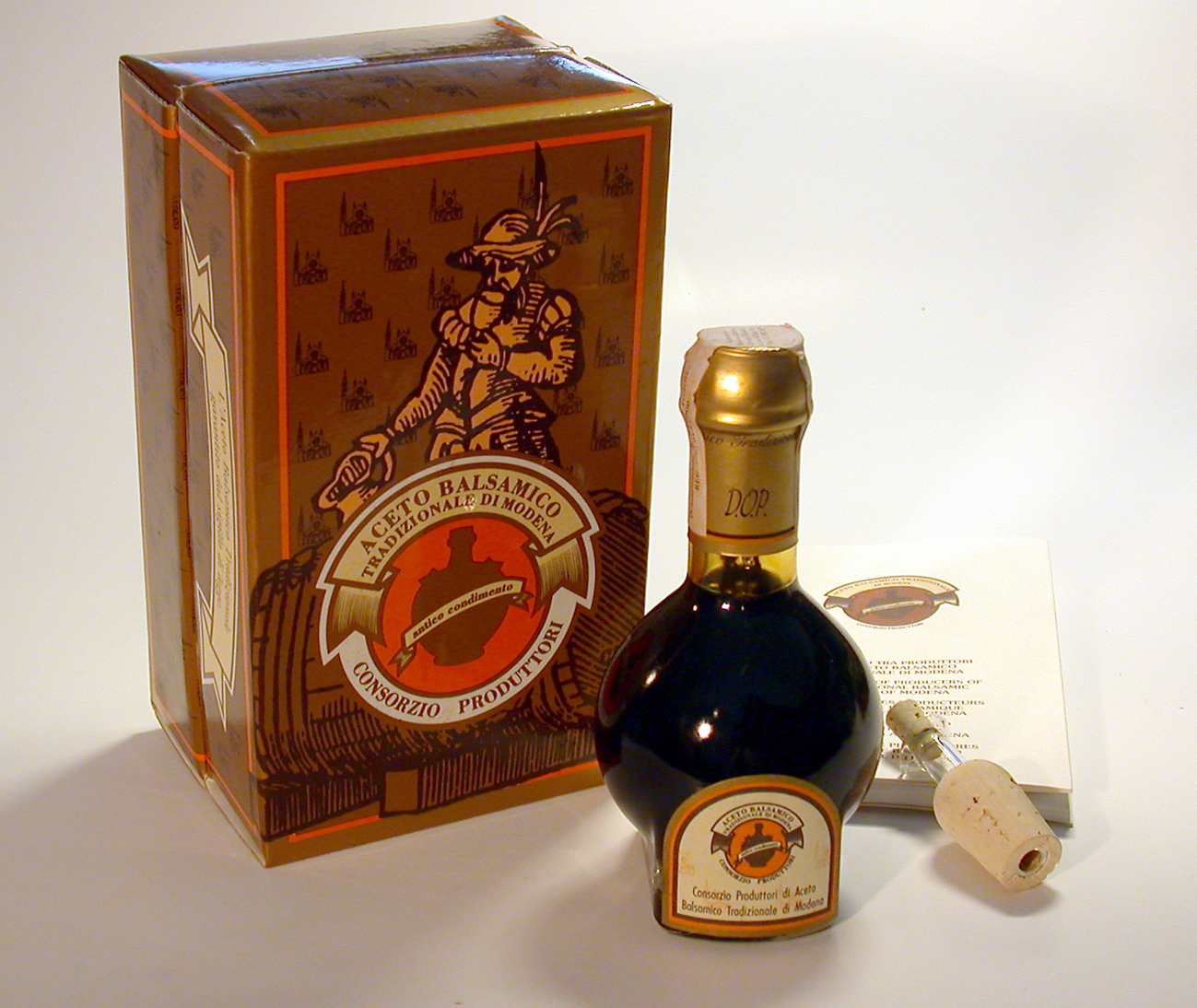 Bottle of Traditional Balsamic Vinegar of Modena aged at least 25 years